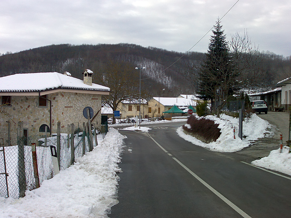 Neve ad Aringo